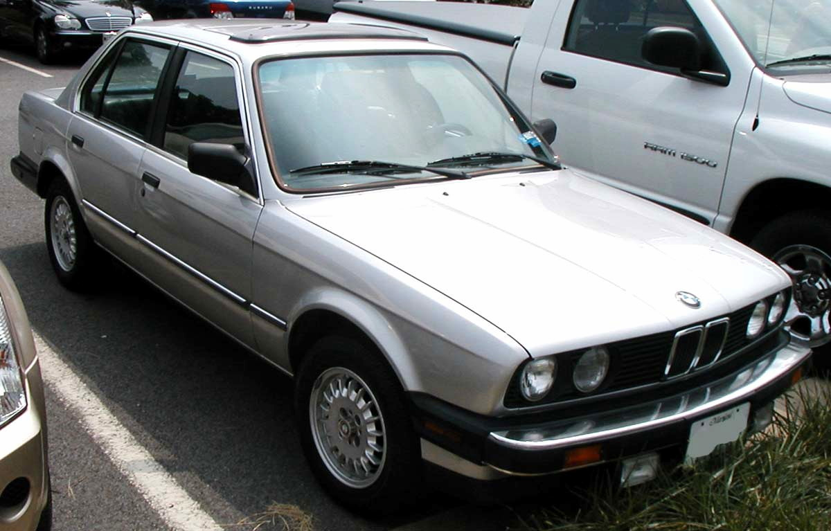 E30 BMW 3-Series sedan photographed in USA.